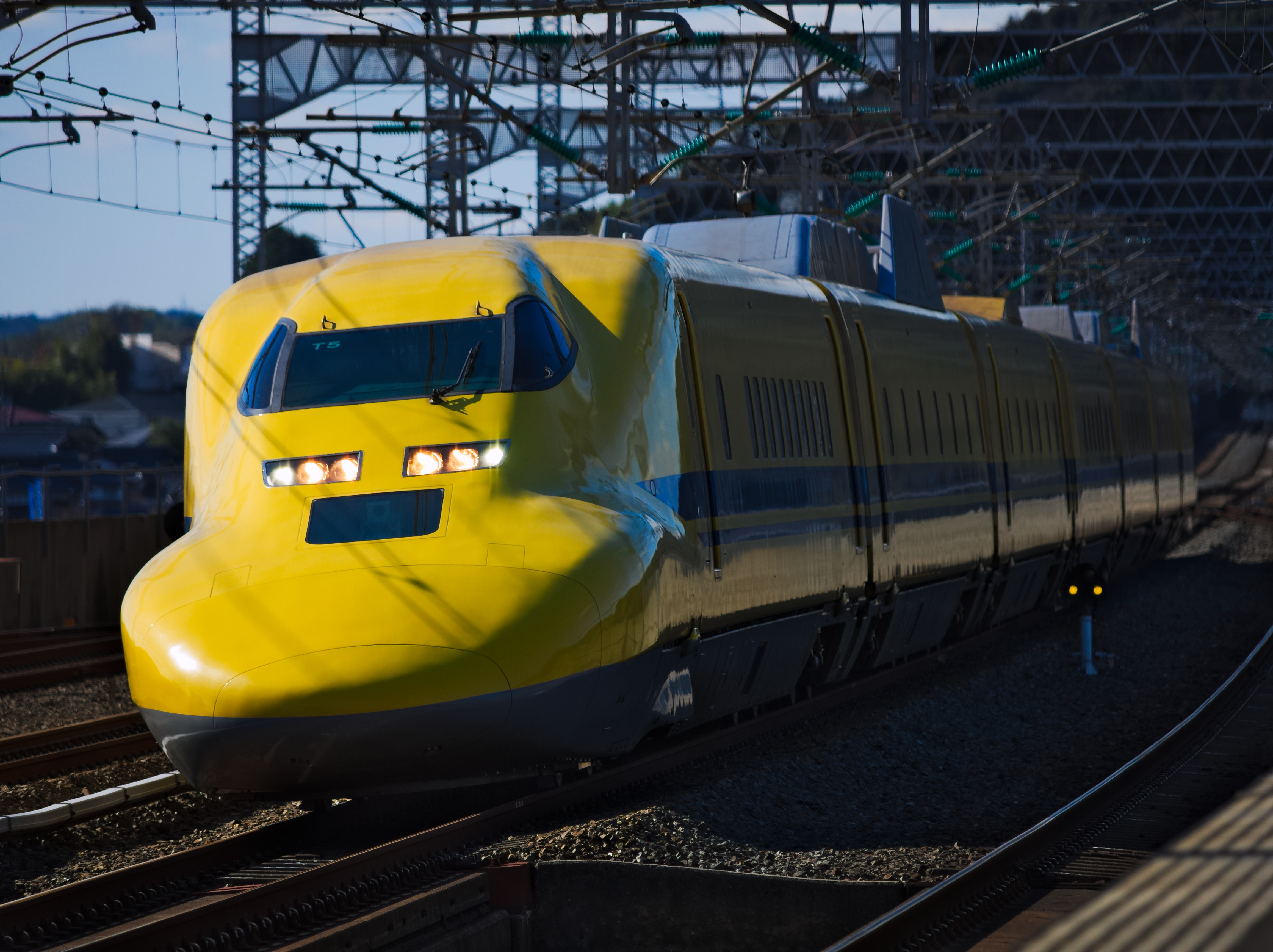 923 series shinkansen "Doctor Yellow" set T5 passing through Shin-Yamaguchi Station